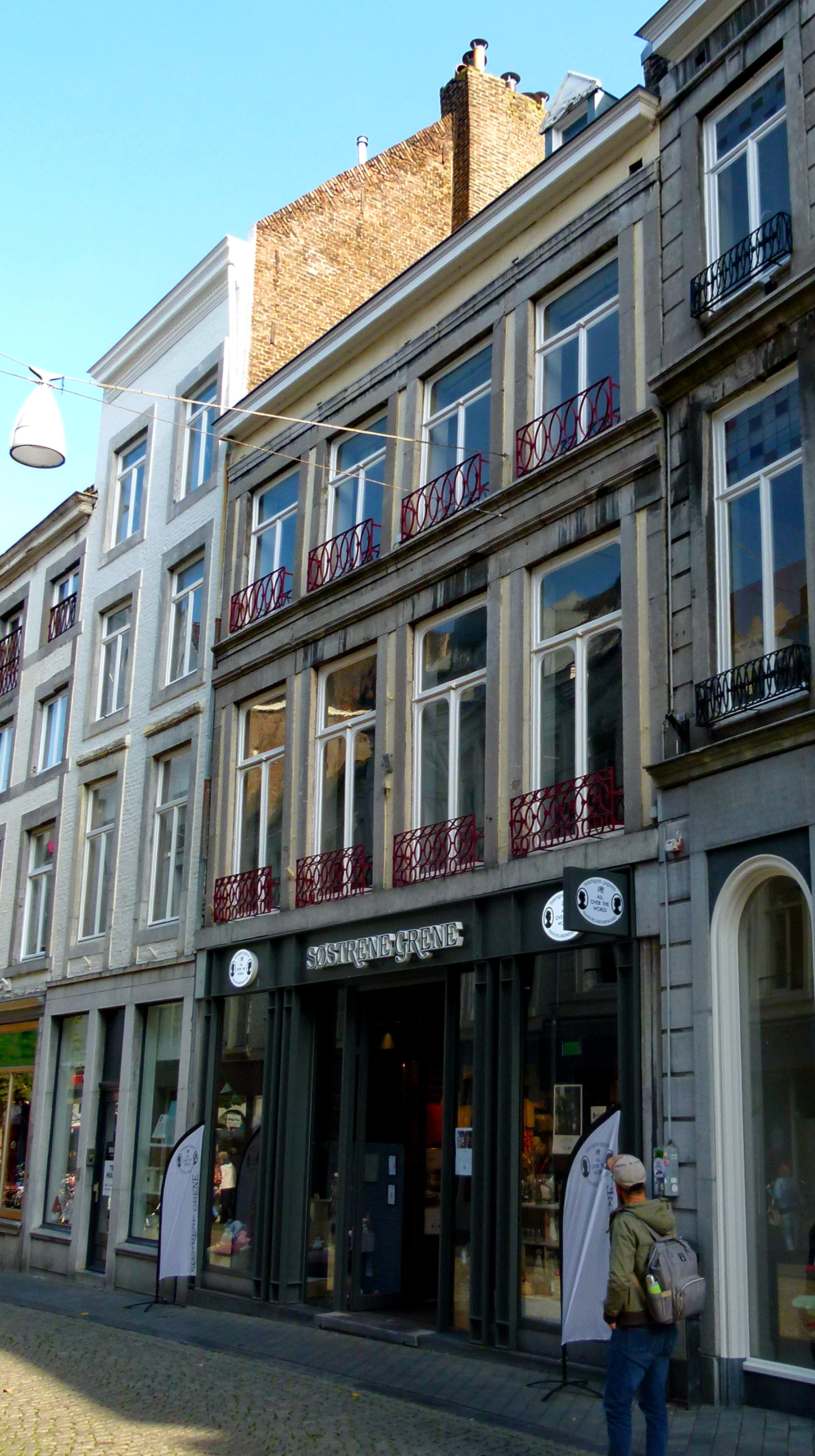 Twee rijksmonumenten in de Nieuwstraat in Maastricht: nrs 7 & 9. In deze panden dreven de ouders van Petrus Regout een glas-, kristal- en aardewerkwinkel, die door hun zoon zou worden uitgebouwd tot een groot productiebedrijf.